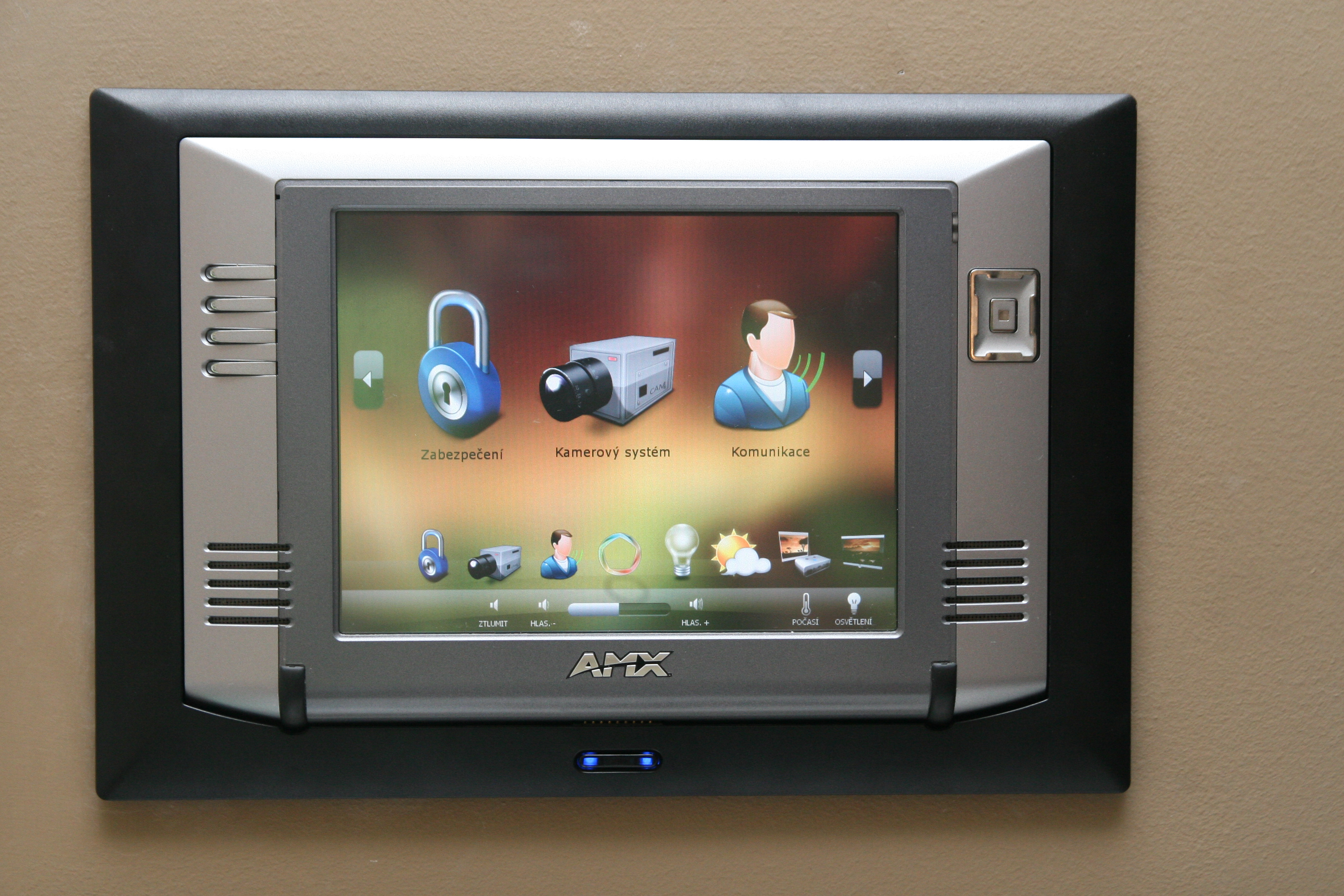 Control panel for an intelligent building